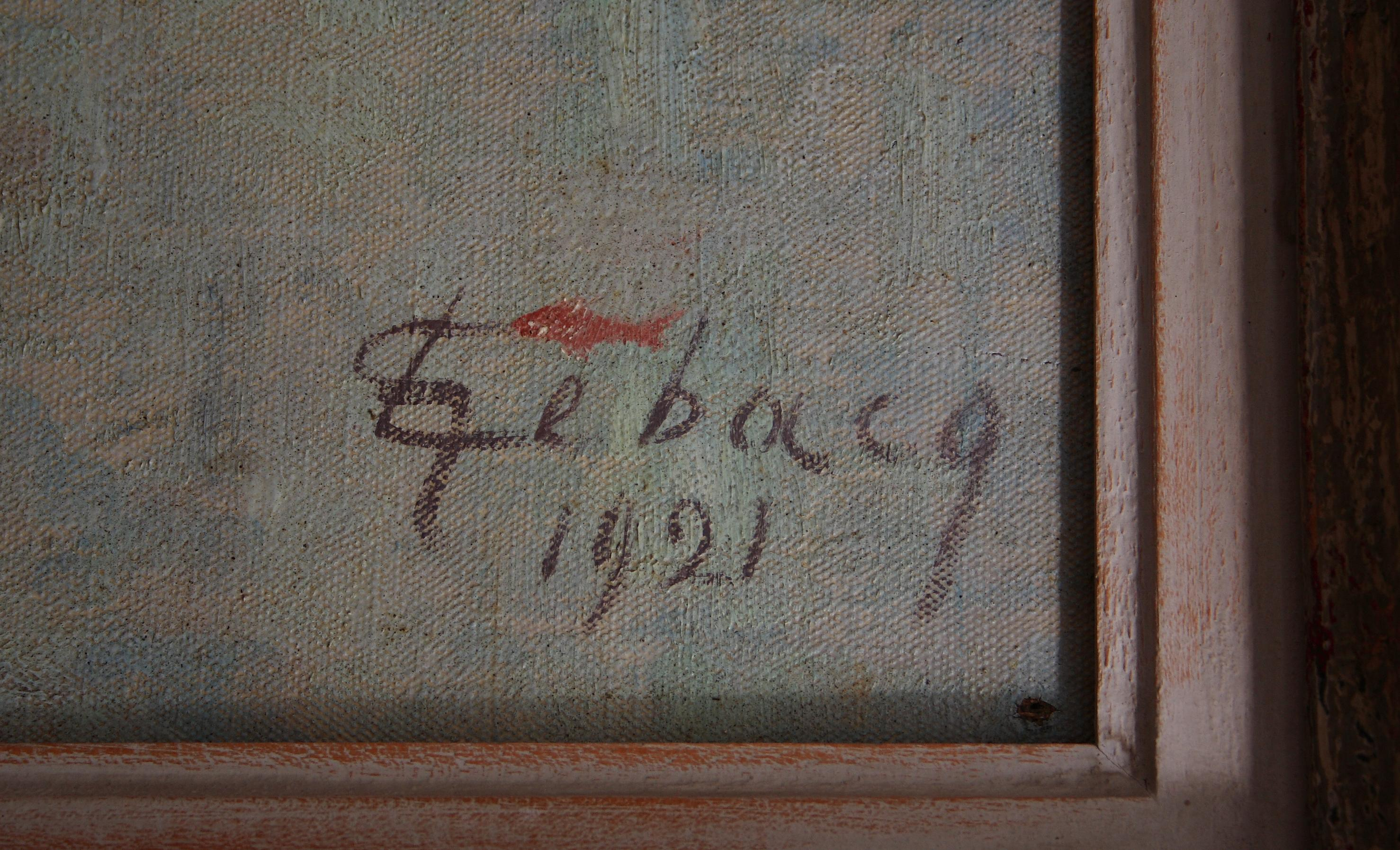 Signature of Georges Emile Lebacq containing the fish (ICHTUS) first christians symbol.